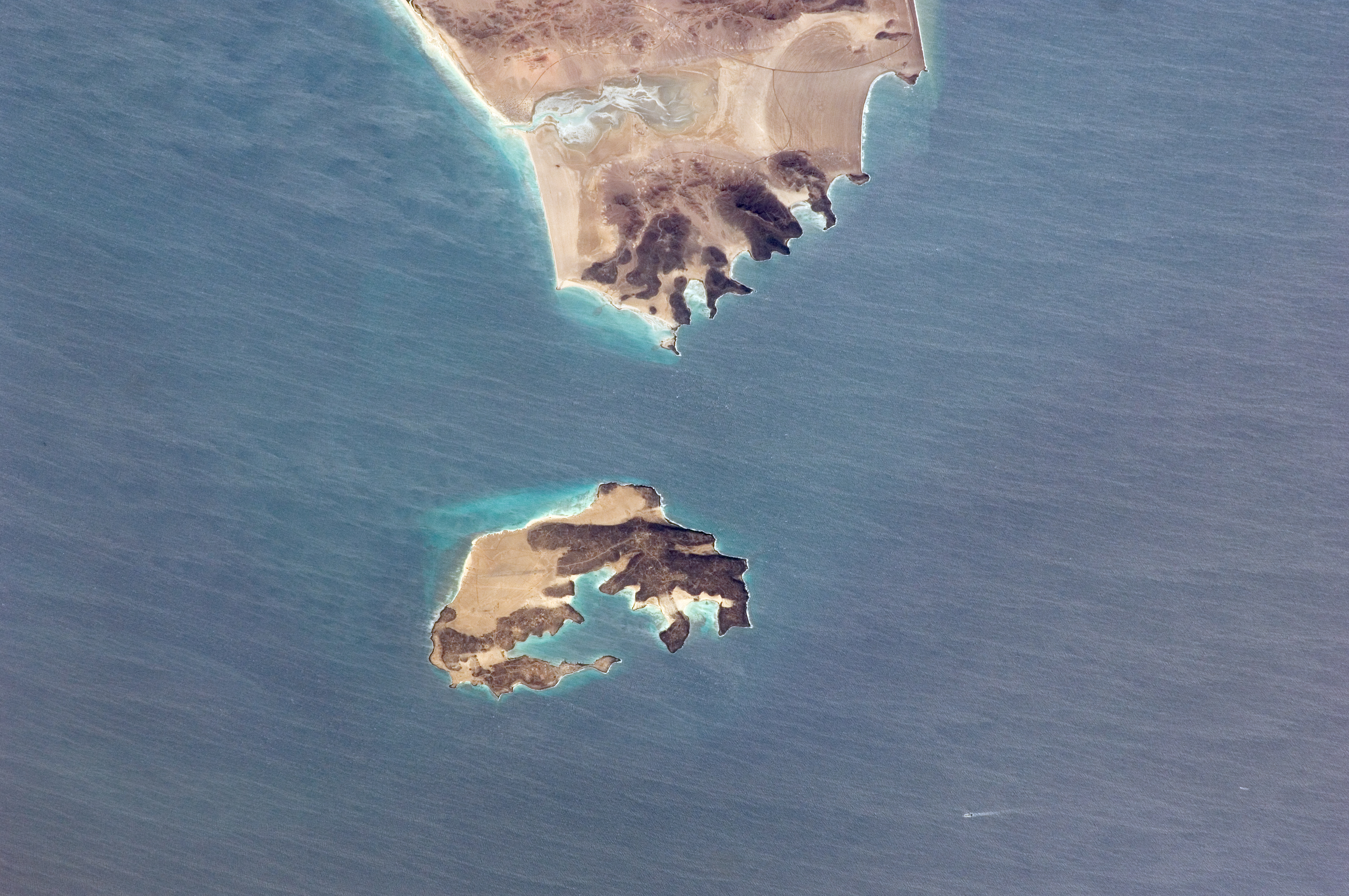 Photo of part of the Strait of Bab-el-Mandeb showing Perim Island and the tip of Ras Menheli, also known as Bab-el-Mandeb Peninsula and Shaikh Said Peninsula. Taken from the International Space Station 13 March 2010 at an altitude of 298 km.